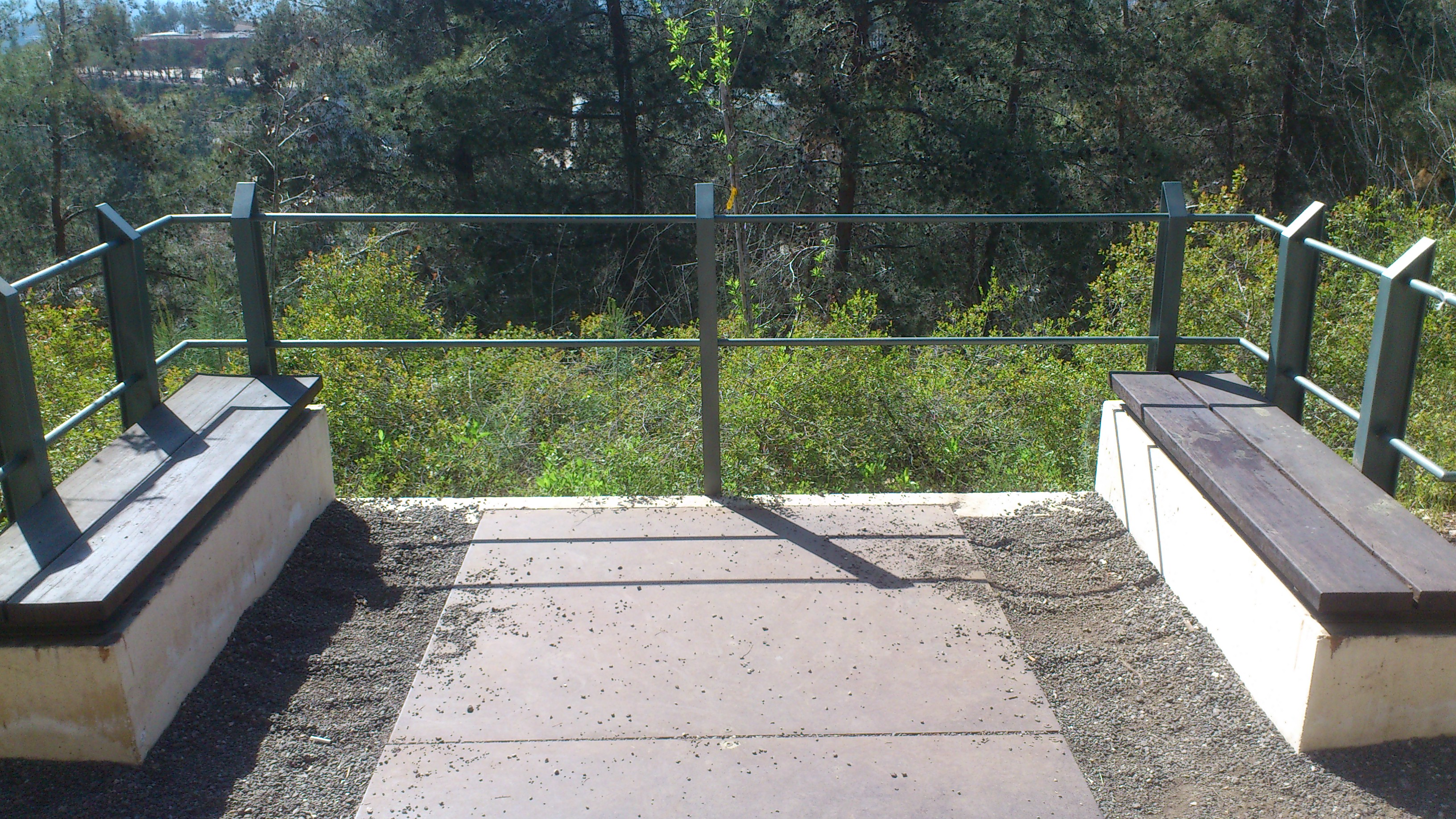 Mount Herzl - The Connecting Path